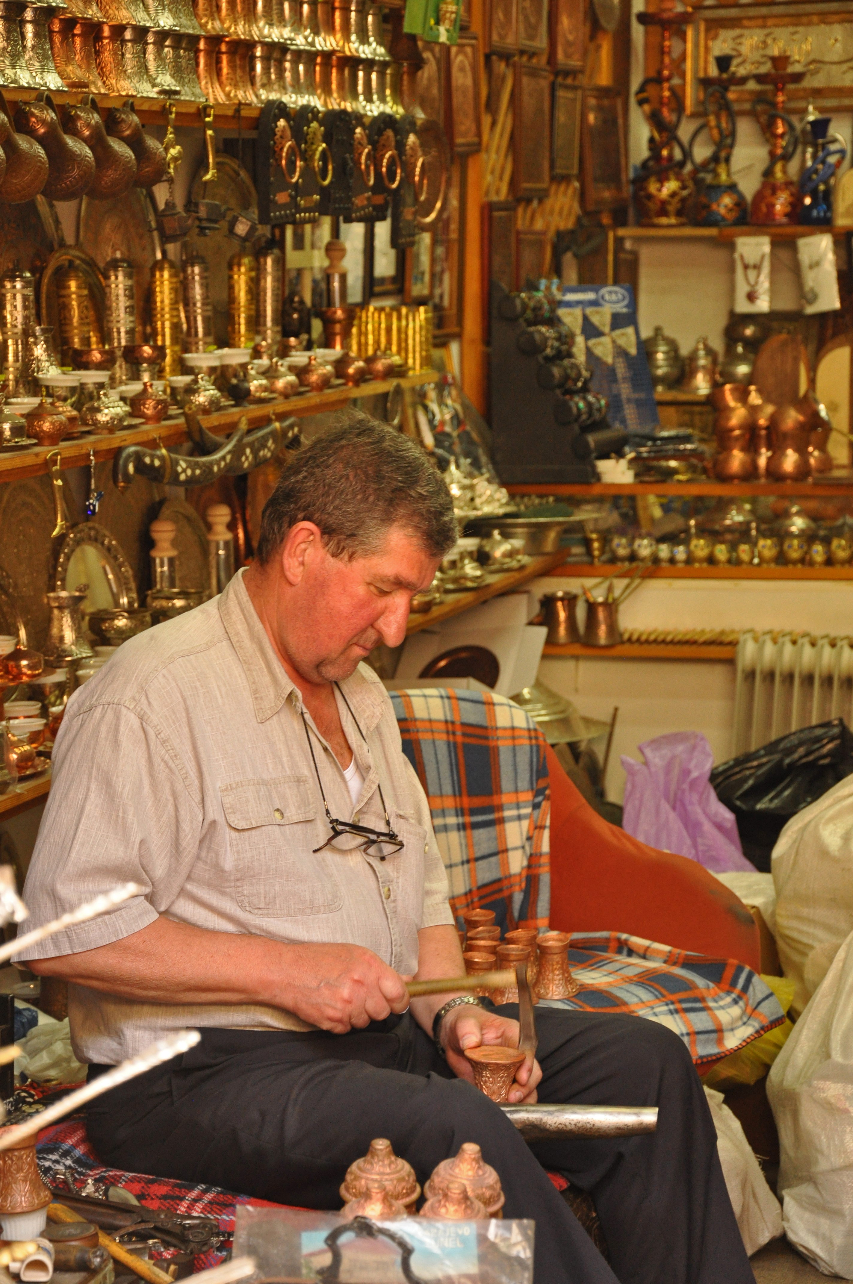 Built in the 15th century and considered the “heart and soul” of Sarajevo, this old bazaar is home to a many of the city’s hotels, restaurants, and nightspots. While the area was the center of trade and commerce during Ottoman rule, it’s now packed with a mix of locals, travelers, and tour groups.